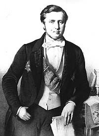 Alexandre Florian Joseph Colonna, Comte Walewski